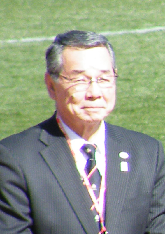 Tatsuzō Yabe, Chairman of Japan Rugby Football Union.